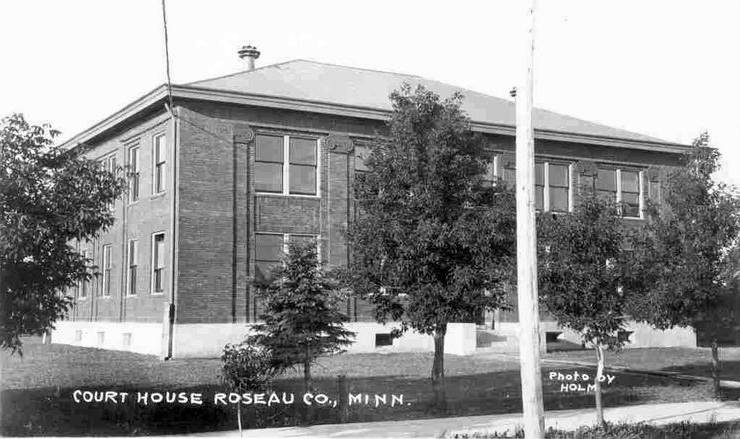 1914 postcard of the Roseau County Courthouse, Roseau Minnesota, United States